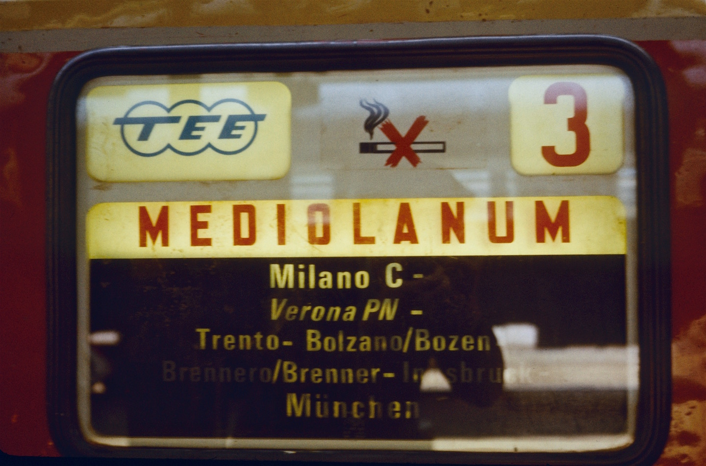 Sign in the side of a car (carriage) of the northbound TEE Mediolanum, while at Bolzano station, in 1982